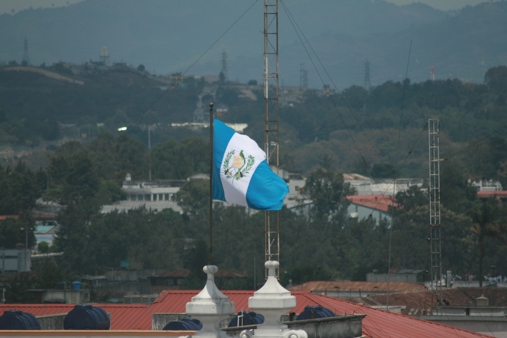 National flag in Guatemala City